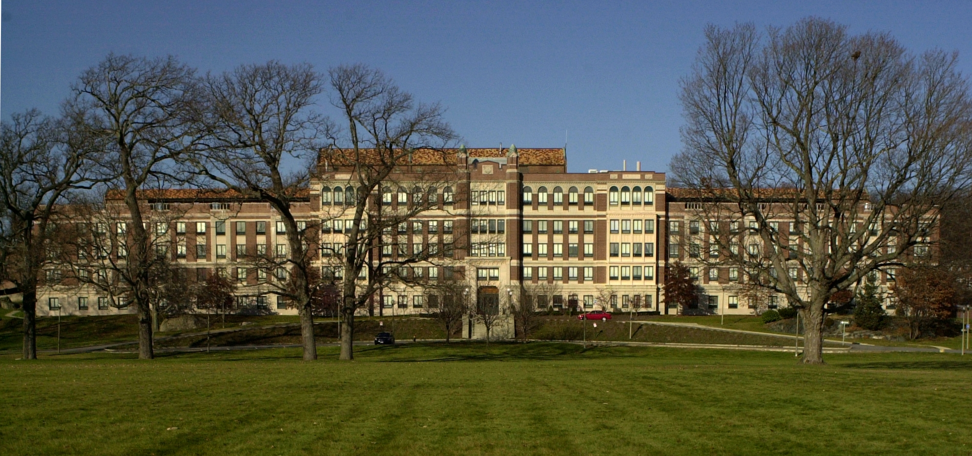 Boston Consumptives Hospital, Dorchester (Boston), Main Building